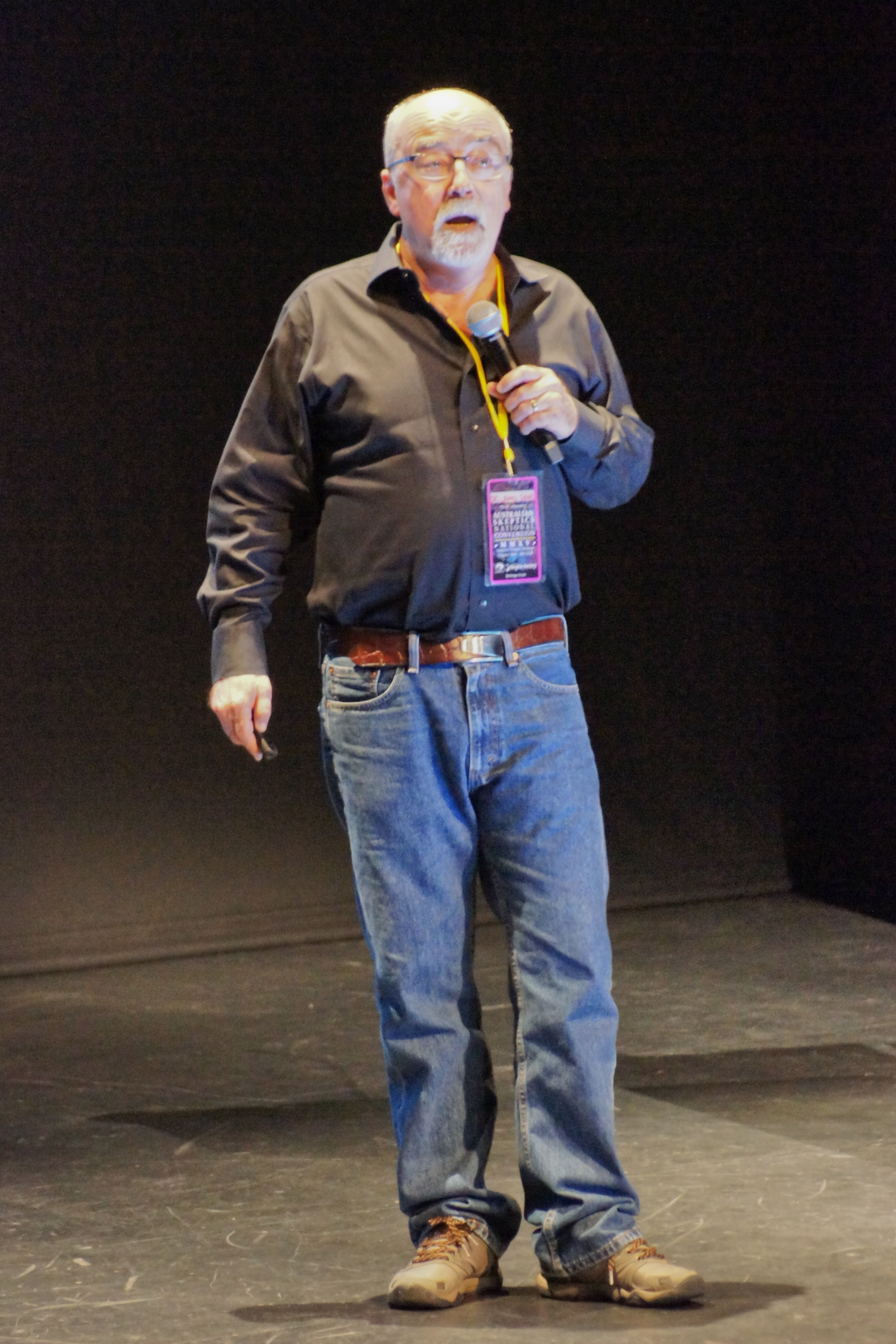 James C. Coyne. AusSkepCon 2015. Brisbane. Skeptics Positive Psychology